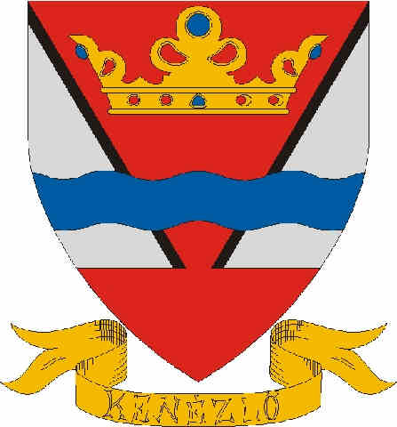 Coat of arms of Kenézlő, Hungary